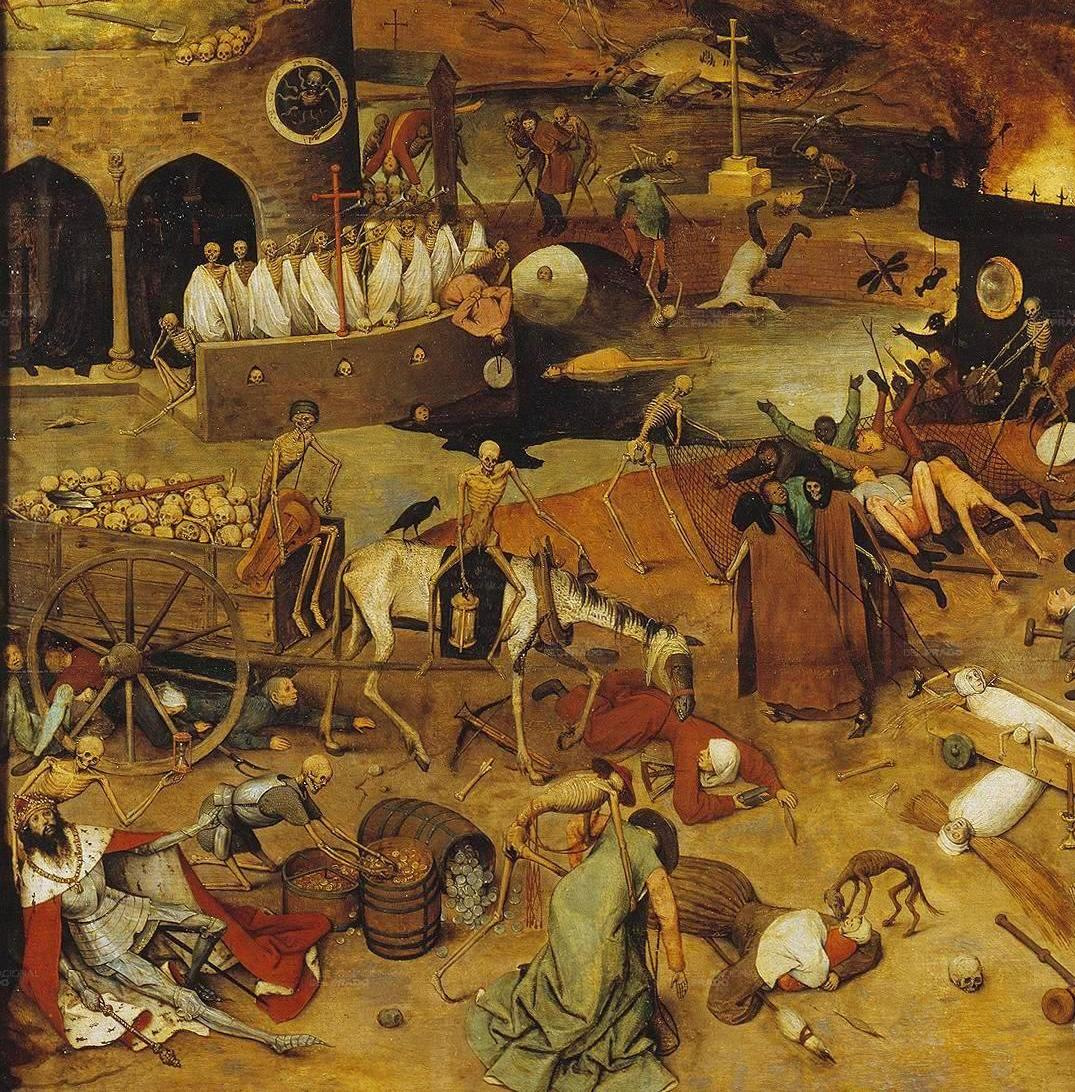 Detail of Wikimedia Commons File Thetriumphofdeath,jpg to be used in Wikipedia article on this painting.